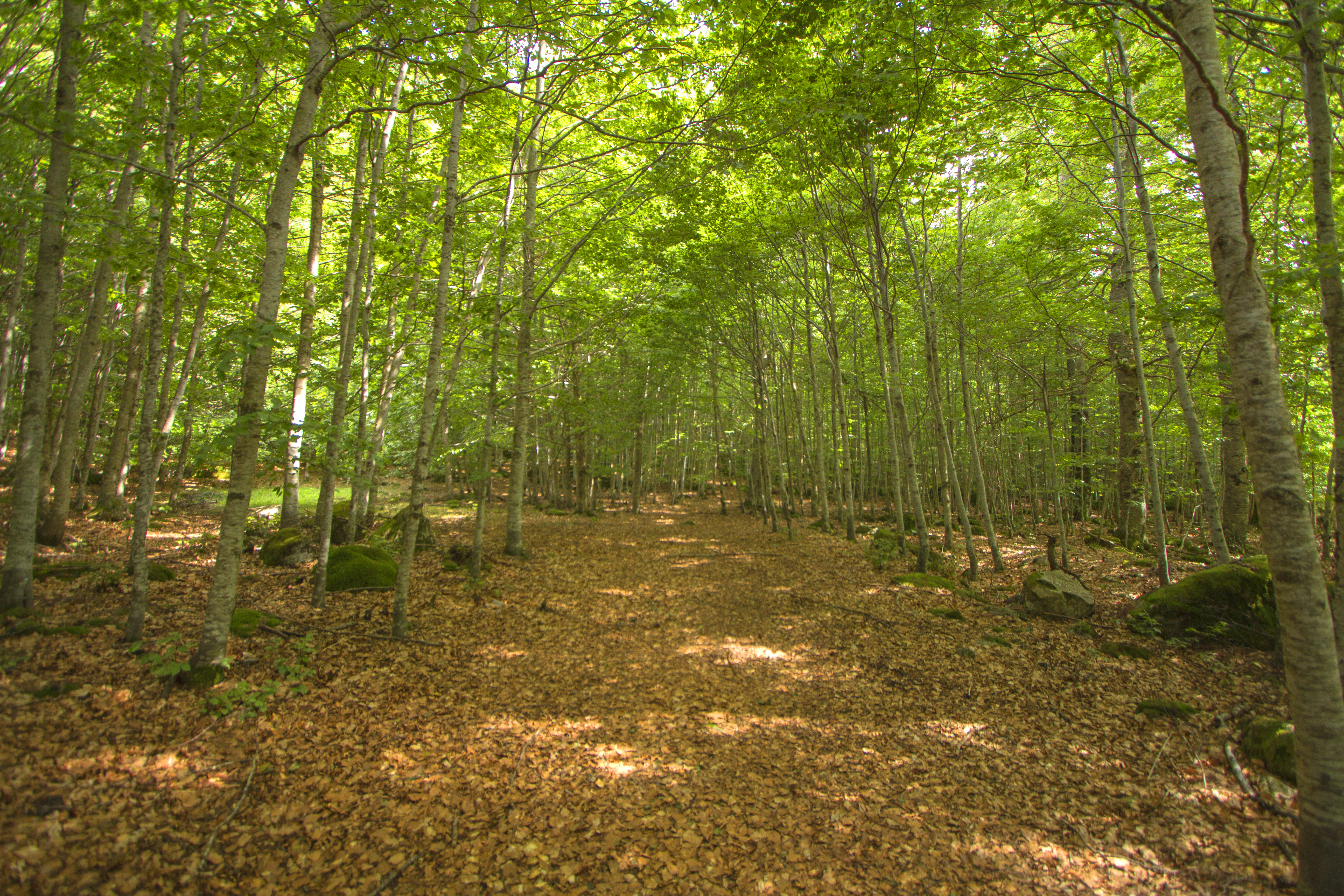 Contesa forest (Catalan Pyrenees)